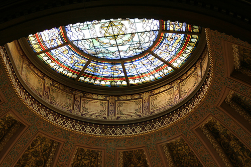 Stained glass skylight in Church of the Holy Trinity, Rittenhouse Square, Philadelphia